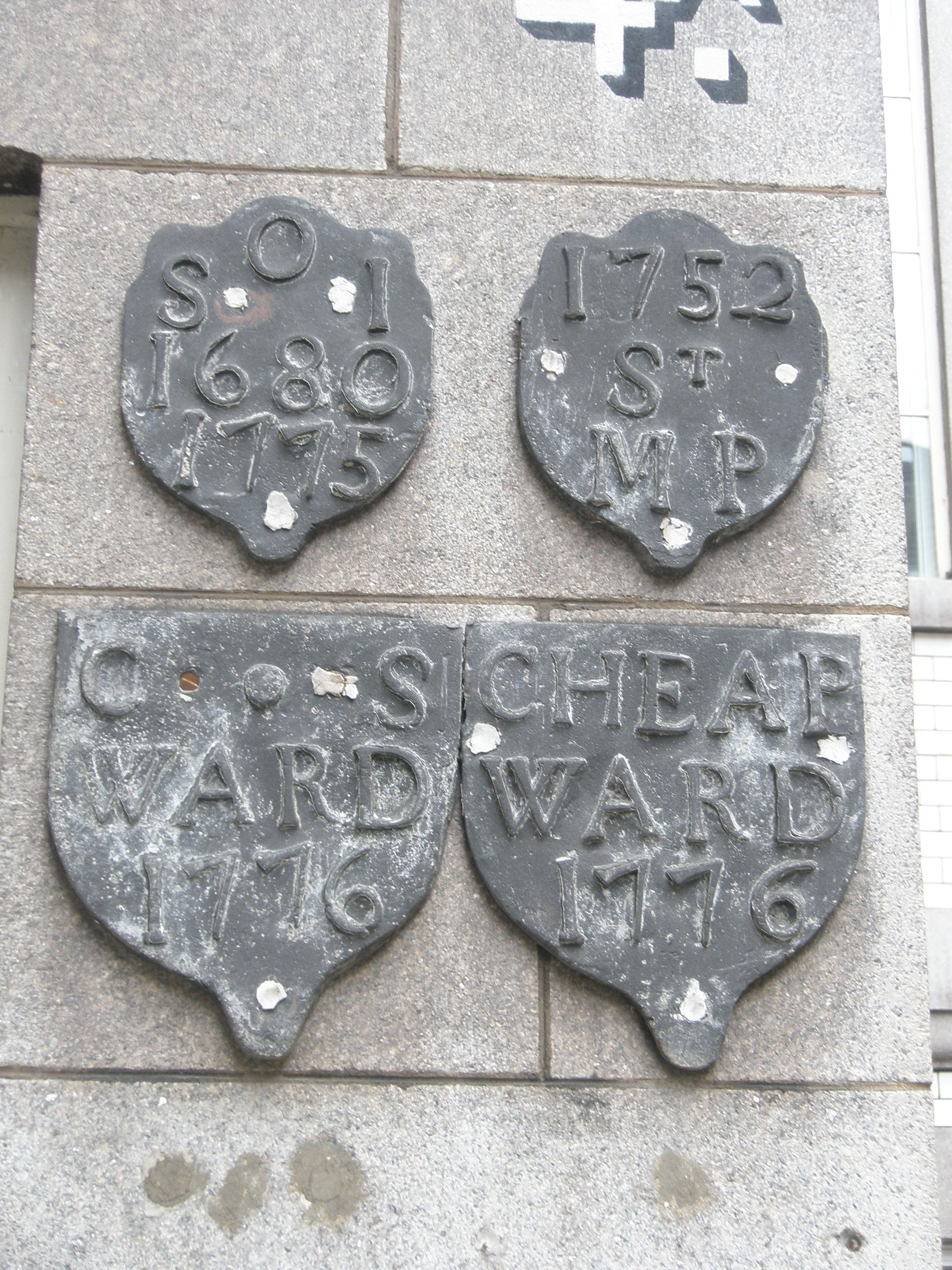 Parish Boundary Mark, Frederick Place